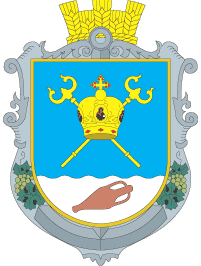 Coat of arms of Mykolaiv Oblast, Ukraine